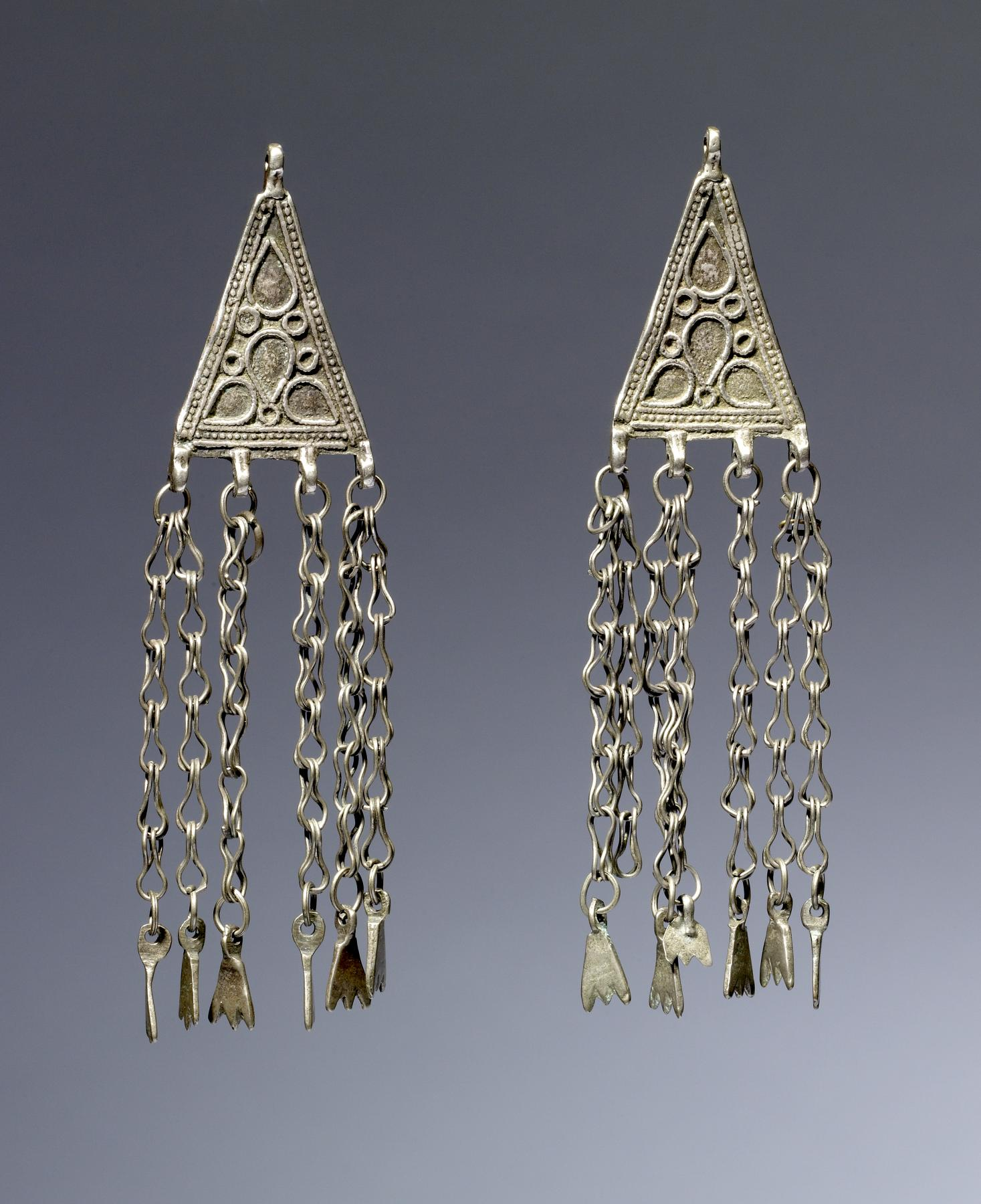 Such ornaments were part of a woman's headpiece. They were fastened at the sides of the headband, hanging down from the temples and flanking the face. These triangular pieces are cast and have one top and four bottom loops, which are soldered on. The front design consists of four ovals facing in different directions, and five small circles in between. A granulation border frames the motif. The small, flat dangles at the lower end of the chains represent small hands. On the back of one pendant is a stamp in Arabic with the name: al-Mahdi. The similarity to stamps of al-Mahdi al-"Abbas makes it likely that the pendants were produced under his reign from AH 1161 to 1189 (AD 1748-1775). The silversmith's name is engraved in Hebrew on the back: Yahya Habshush.